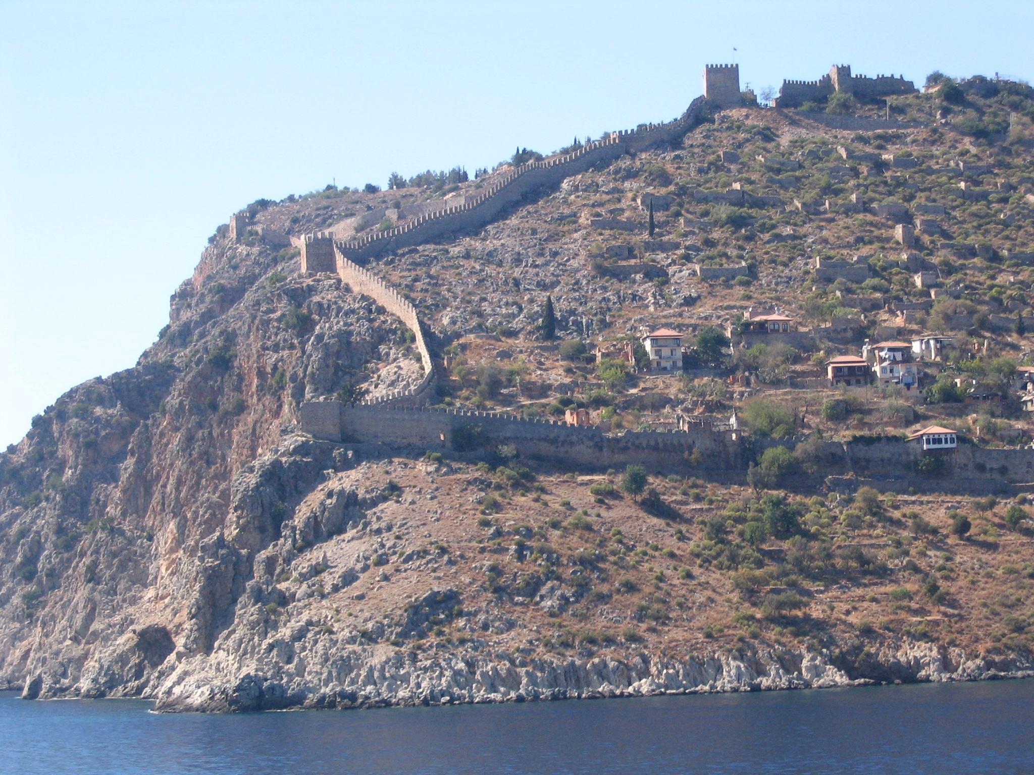 Alanya (Turkey), wall